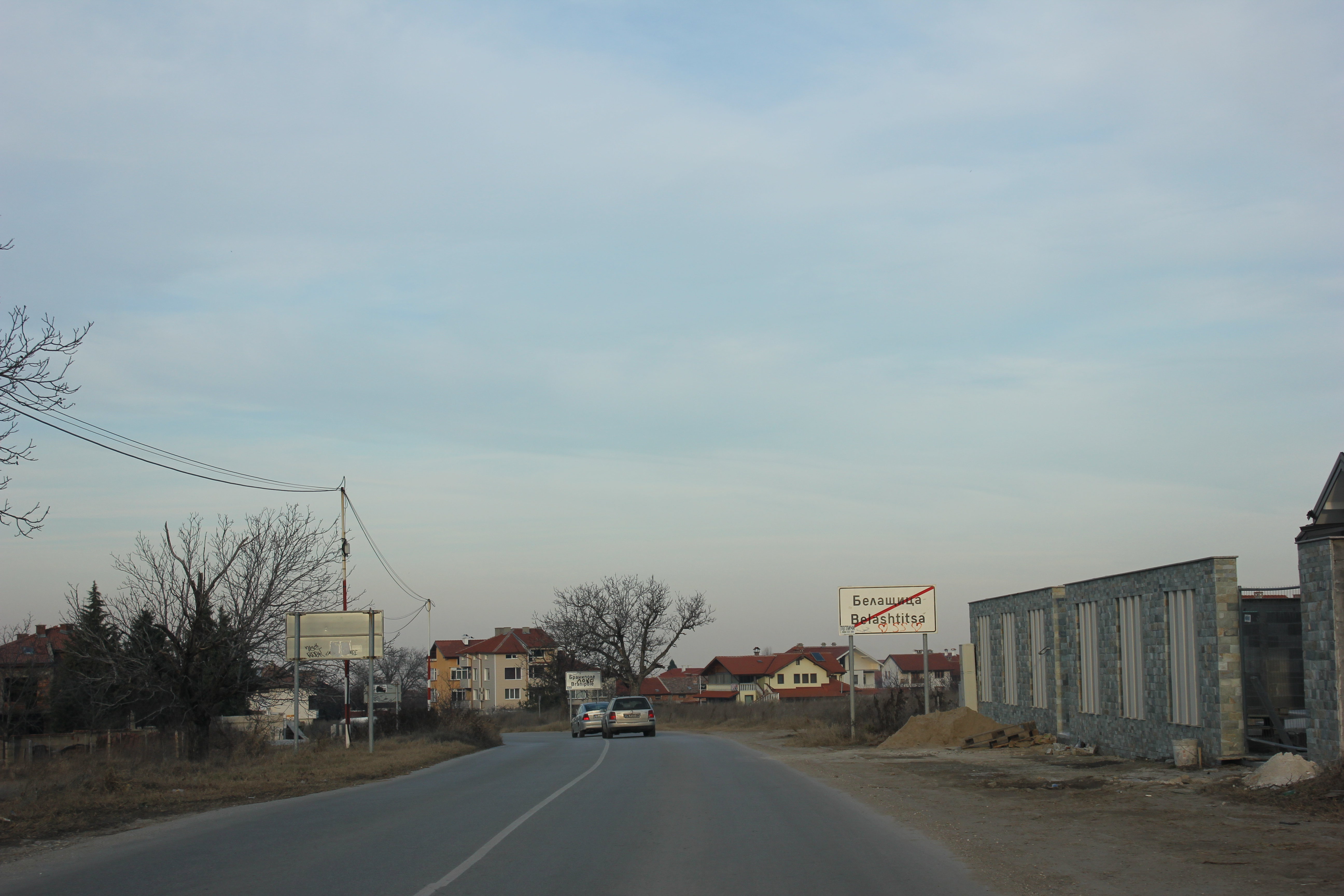 The road link of 50 meters between Belashtitsa and Branipole